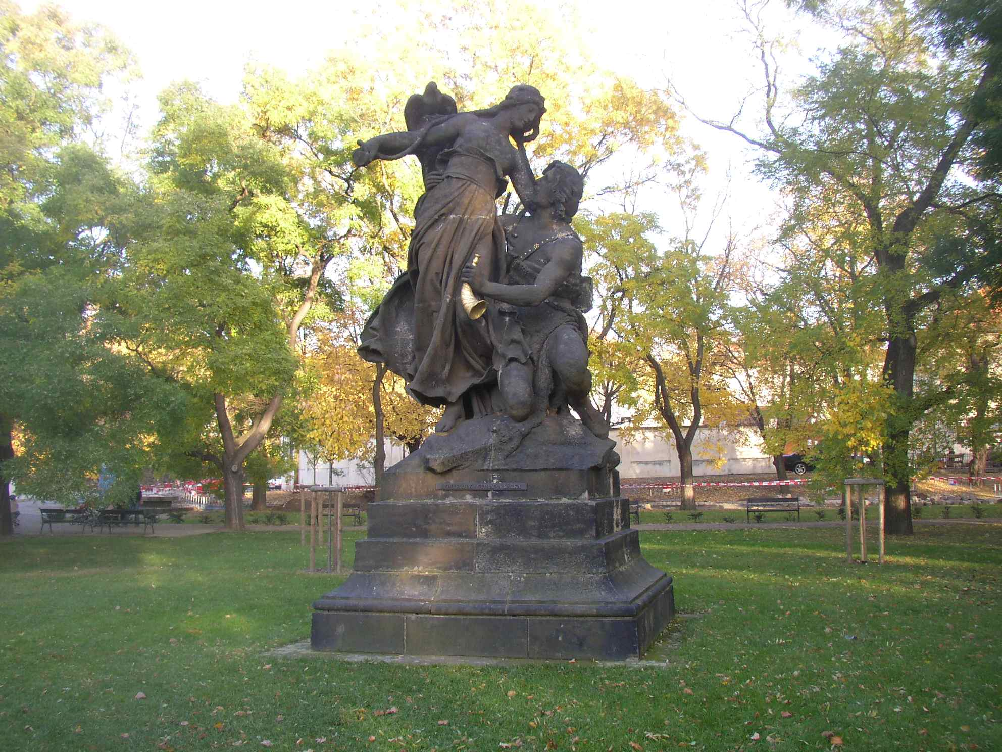 Ctirad and Šárka, Vyšehrad, Prague, Czech Republic. Sculpture designed by Josef Václav Myslbek in 1881 and finished in 1895 depicts beautiful Šárka and brave Ctirad, two characters of the Maidens war episode from old Czech legends. It was originally placed at the Palacký Bridge, but was transferred to Vyšehrad park in 1947 as the bridge suffered heavy damage during US air raid in February 1945. Photo taken by Miaow Miaow in October 2005, PD-self